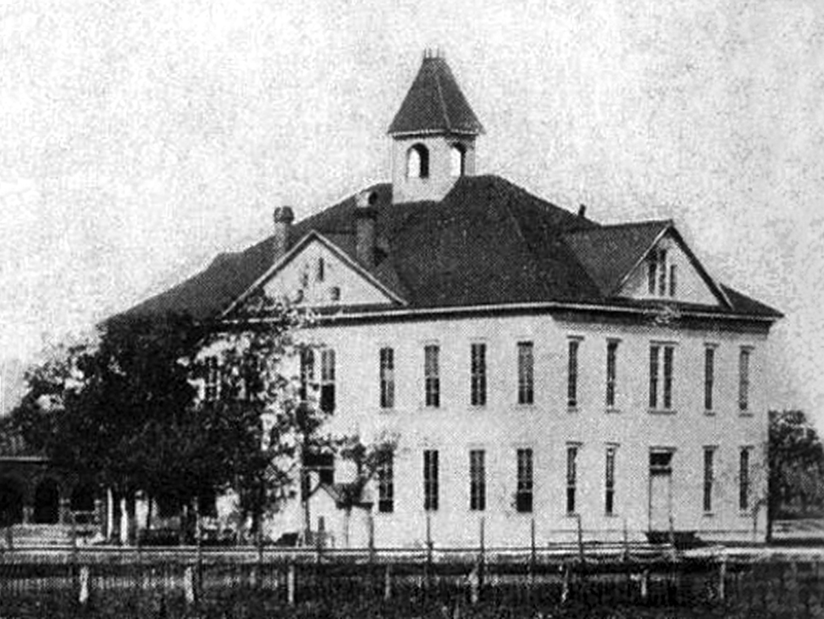 The main building opened in the fall of 1895. It was located on the current site of the University Center, directly across from College Hall.